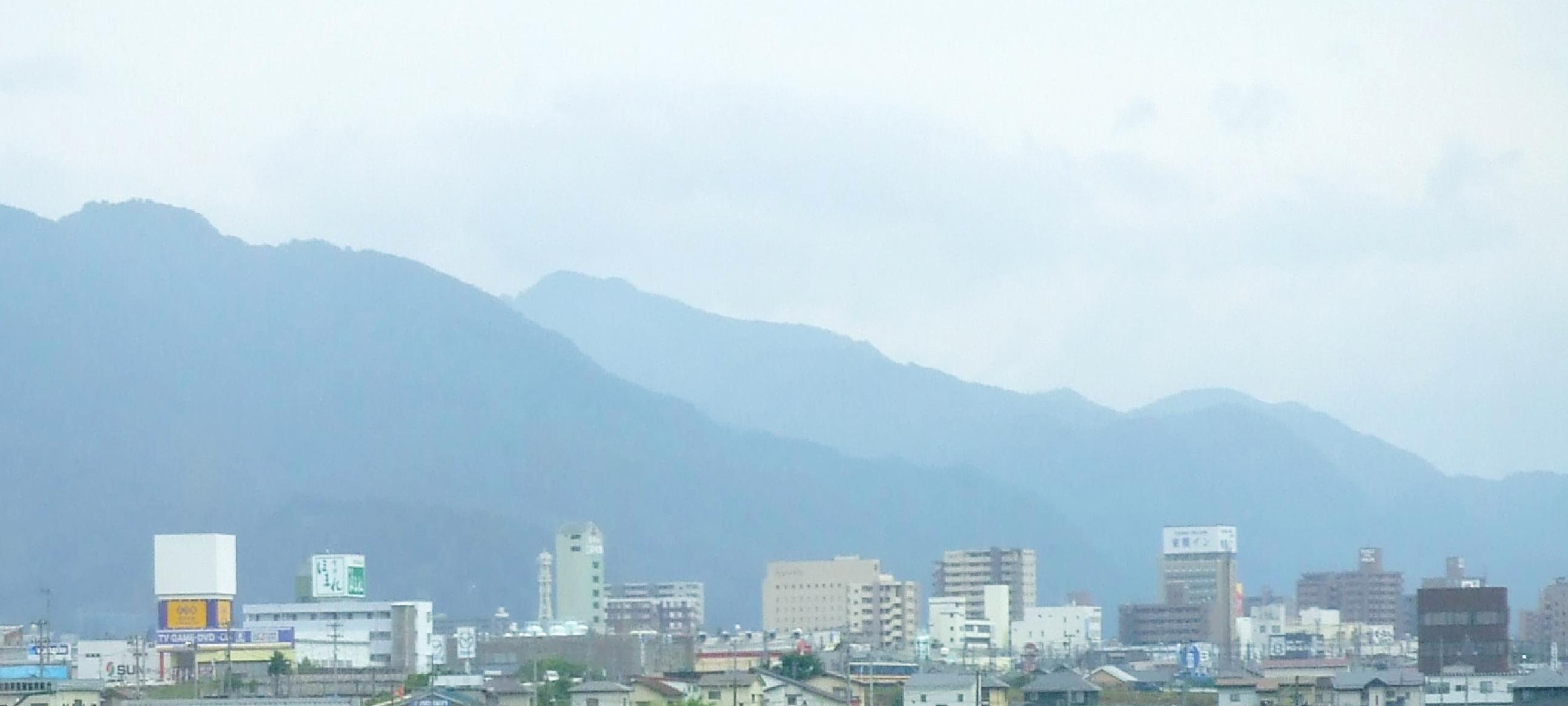 Aizuwakamatsu, Fukushima